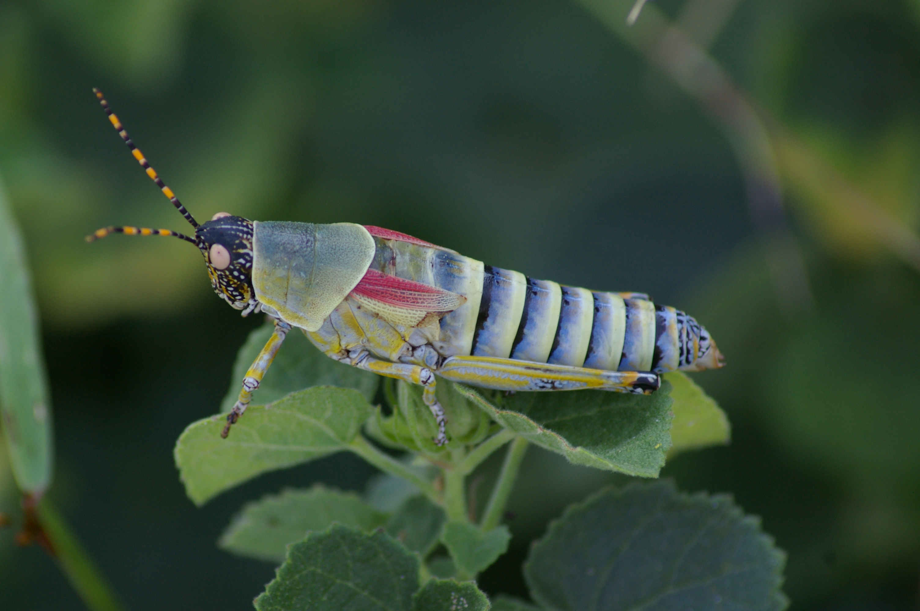 Zonocerus elegans (Pyrgomorphidae), shot in Zambia